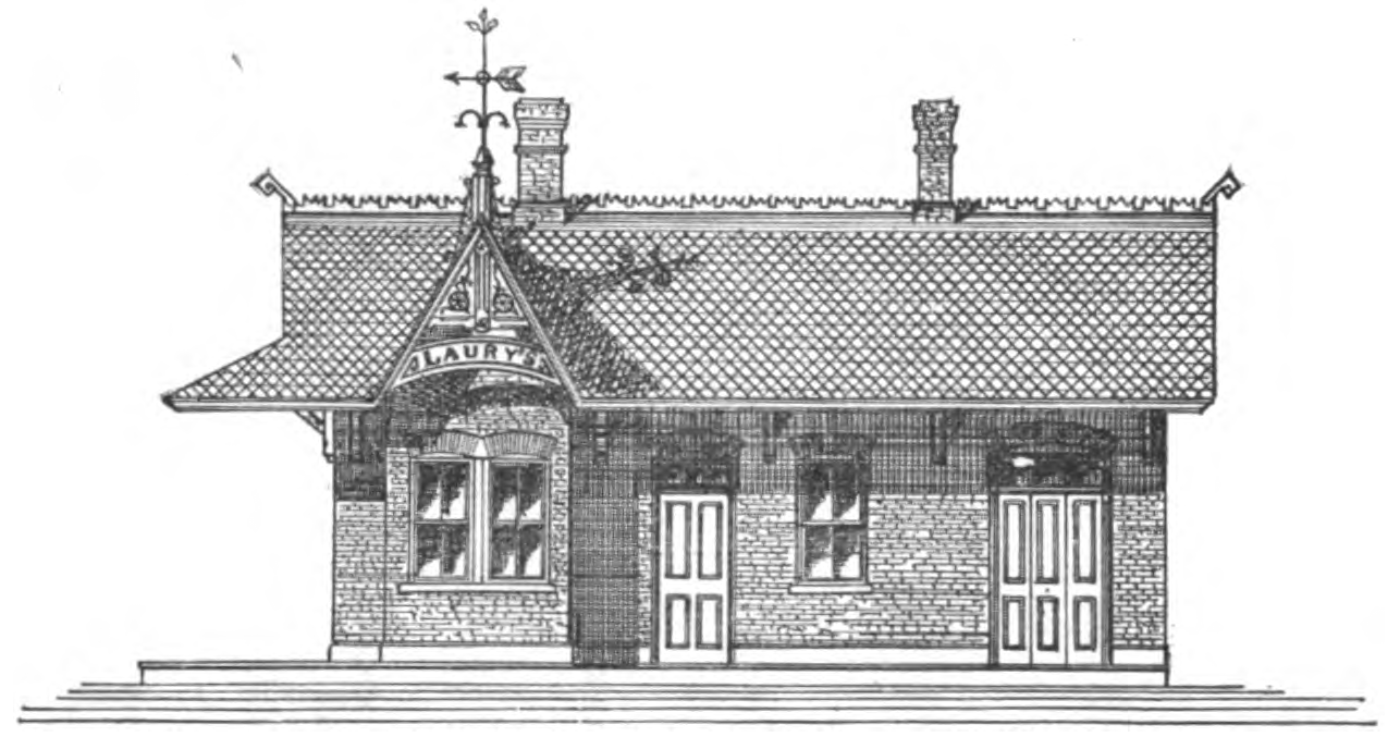 Elevation drawing of the Lehigh Valley Railroad's Laurys station.